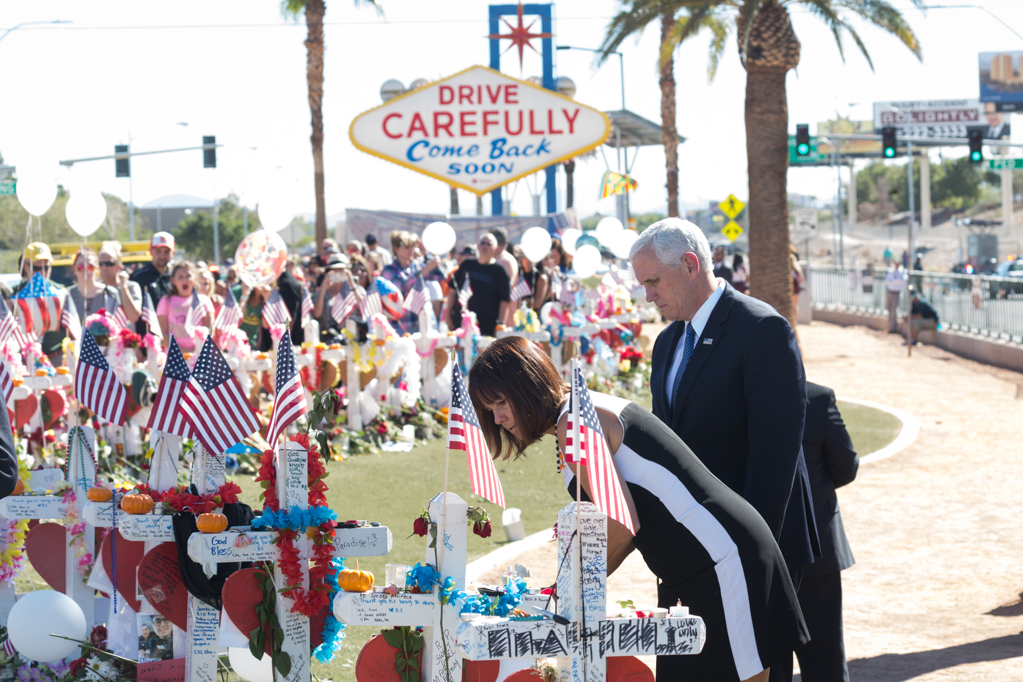 Vice President Mike Pence and Mrs. Karen Pence lay flowers at a memorial, Saturday, October 7, 2017, in Las Vegas, Nevada. The memorial is dedicated to the victims of the mass shooting on Sunday, October 1, 2017, in Las Vegas, Nevada. (Official White House Photo by D. Myles Cullen)